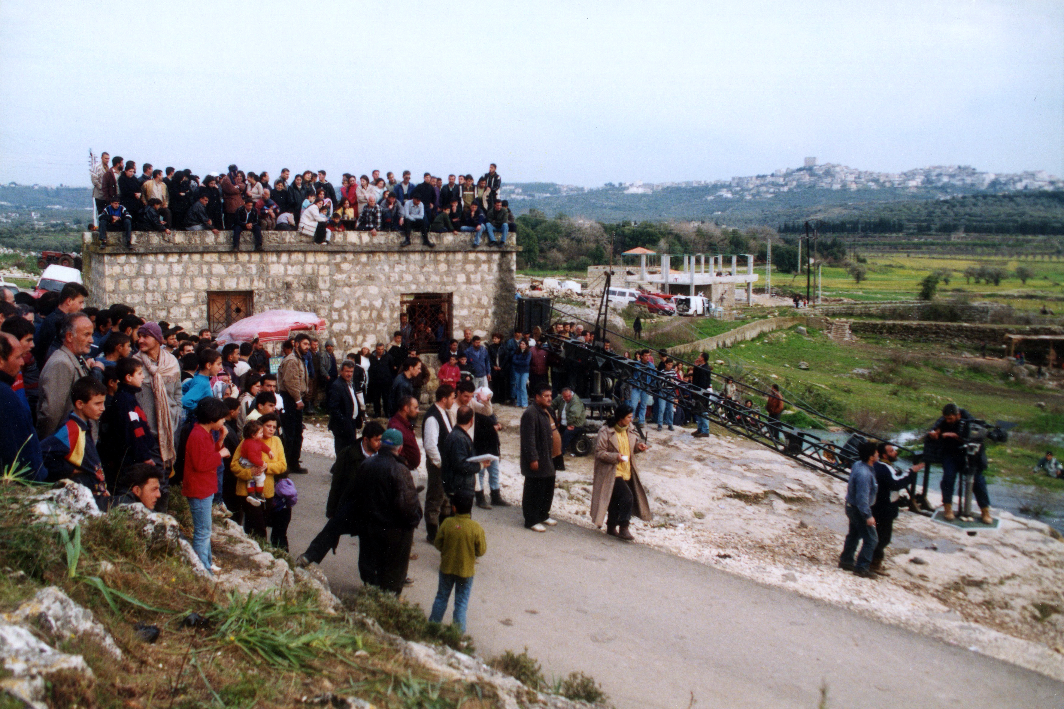 Film Set - Unshoodat Al Matar